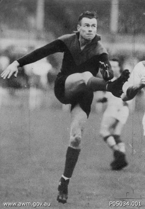 Australian rules footballer Ron Barassi Senior (1913-41)